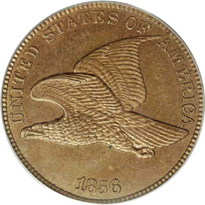 1856 Cent, Flying Eagle, Obverse